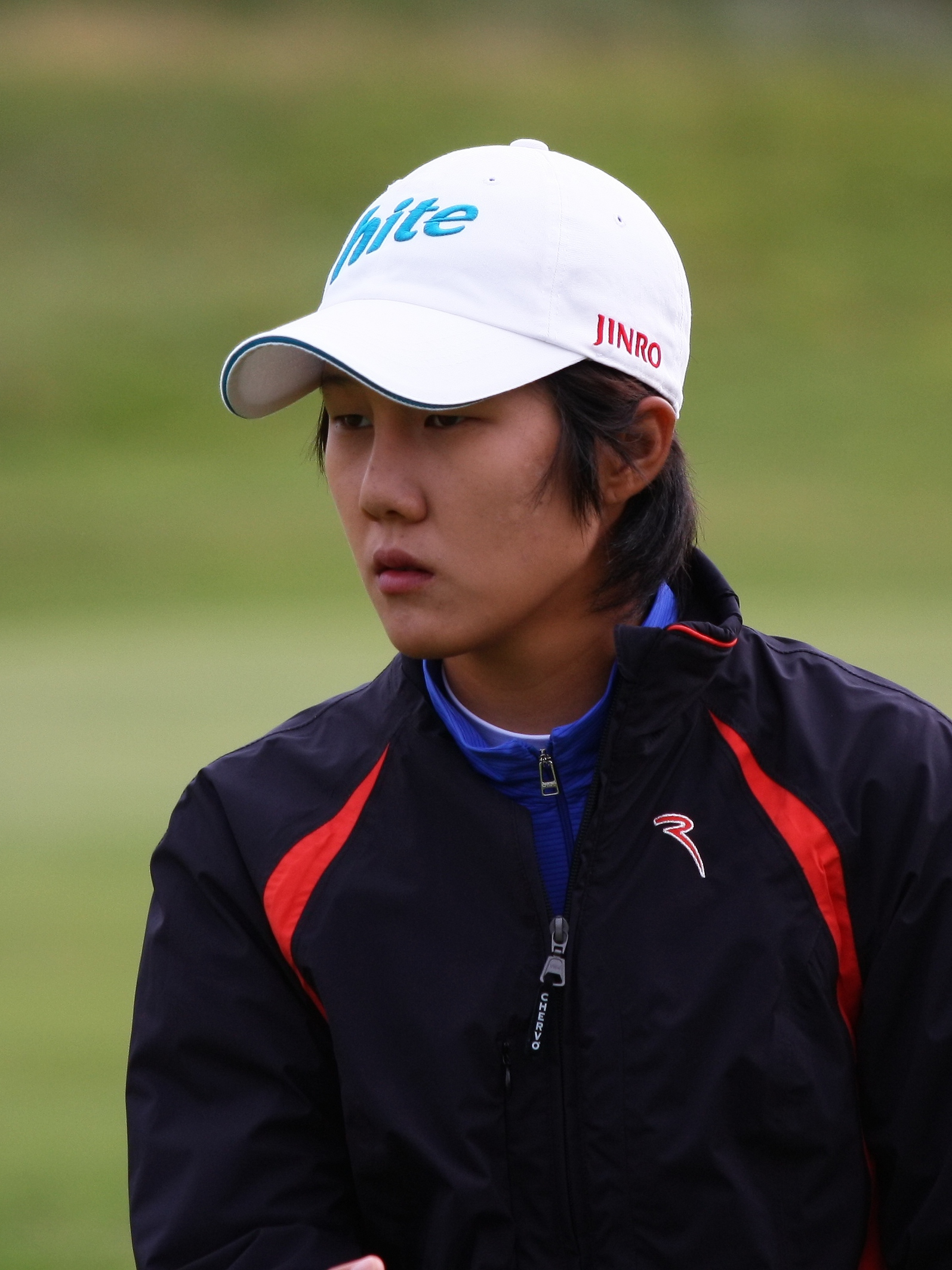 SOUTHPORT, UNITED KINGDOM - JULY 26: Kim Song-Hee of South Korea next to the 18th green during first practice round before 2010 Ricoh Women's British Open held at Royal Birkdale on July 26, 2010 in Southport, England. (Photo by Wojciech Migda)